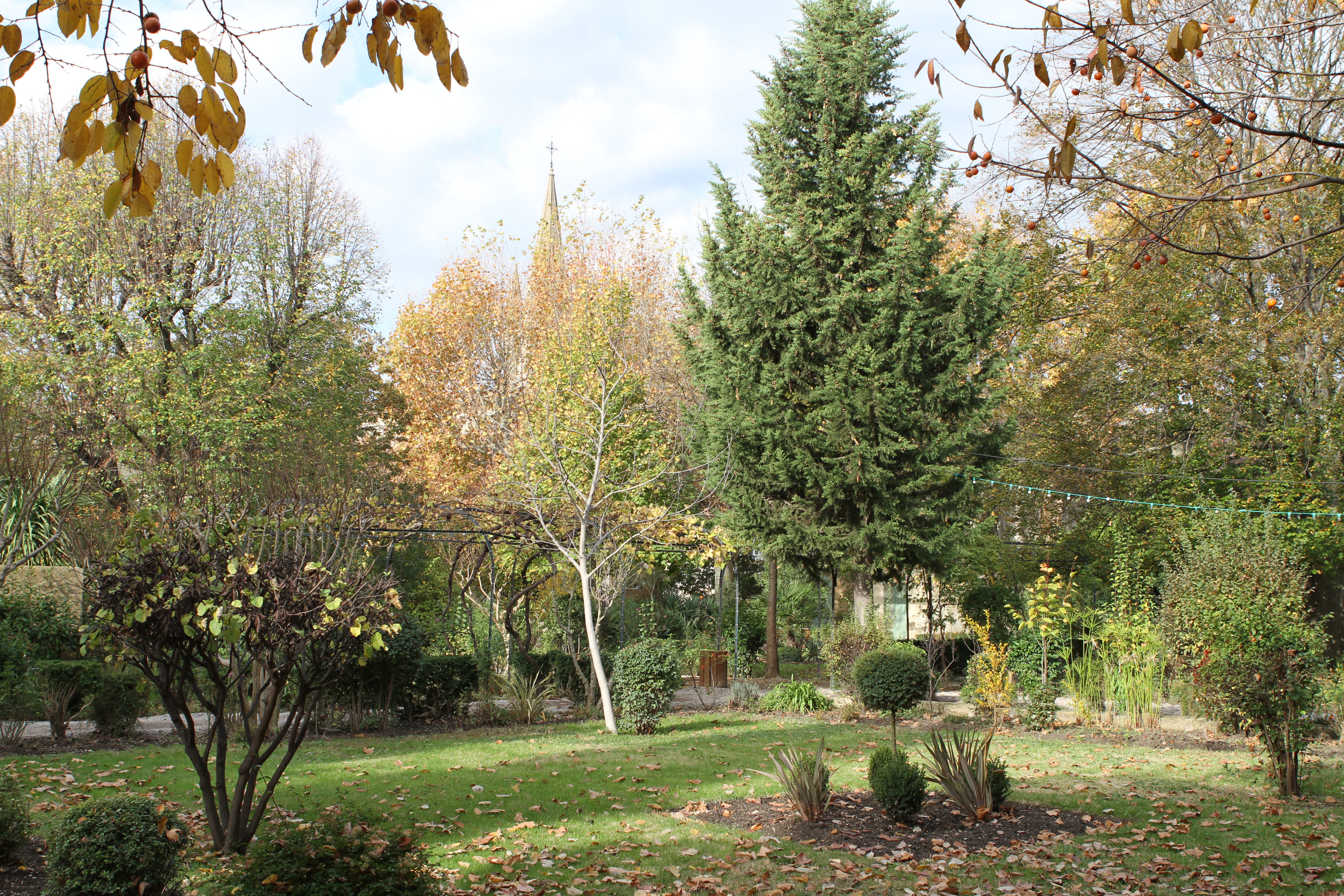 The park Maureau at Pélissanne (Bouches-du-Rhône, France)